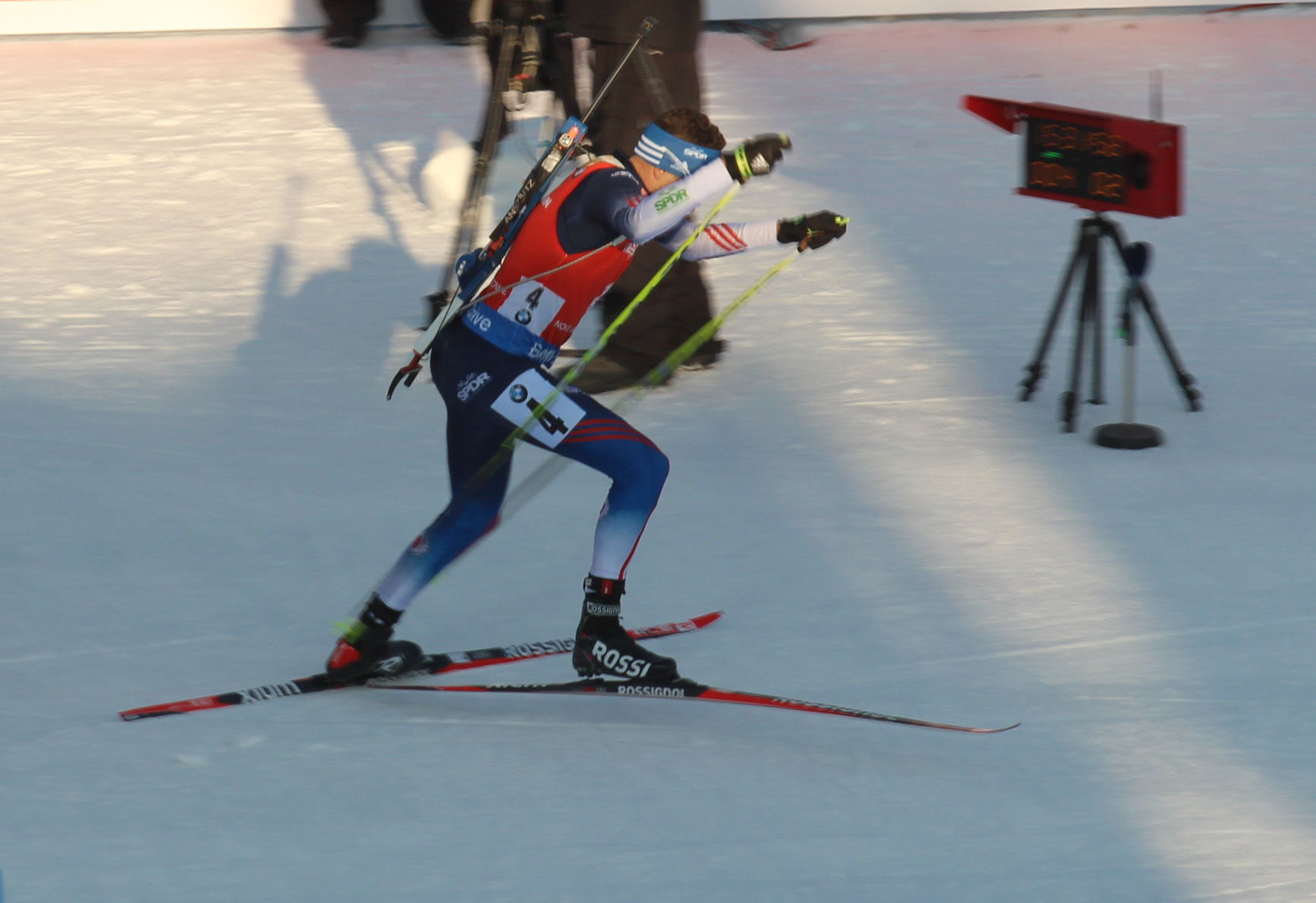 Tim Burke at Biathlon World Cup 2015 in Nové Město, Czech Republic – sprint men